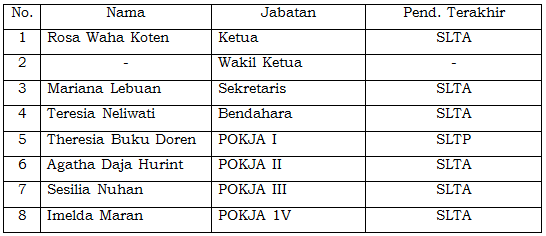 PKK Lewoloba